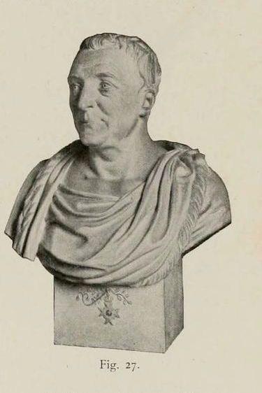 Carl von Linné (Carl von Linnaeus), bronze, 1807, by Jonas Forsslund (1754-1809)